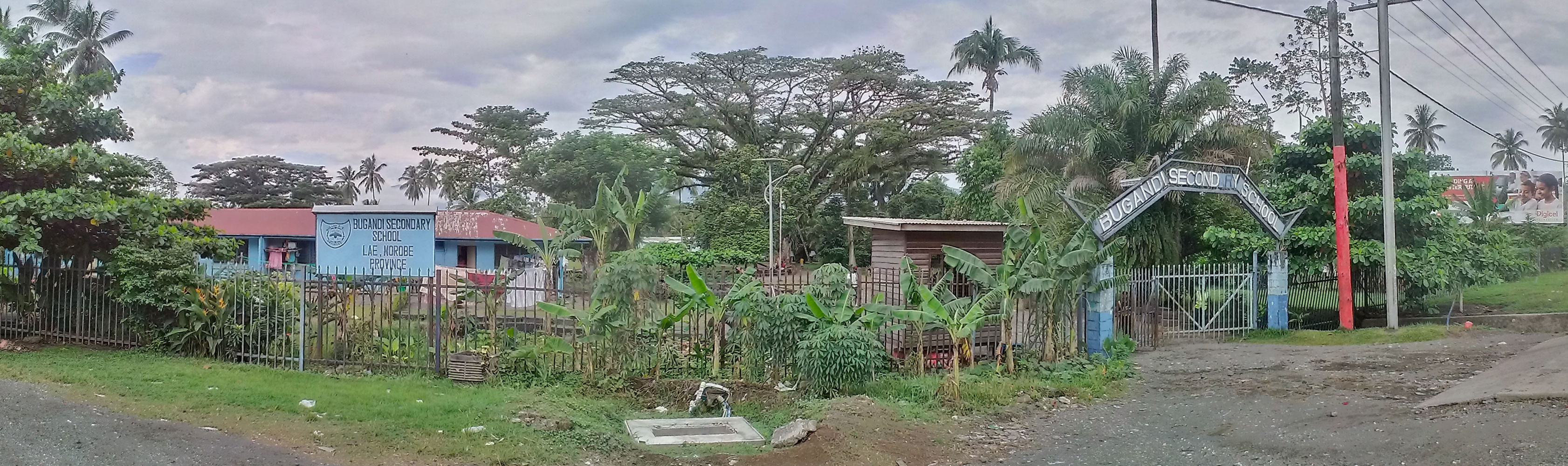 Bugandi High School Markham Road facing South West. Mount Shungol in background.